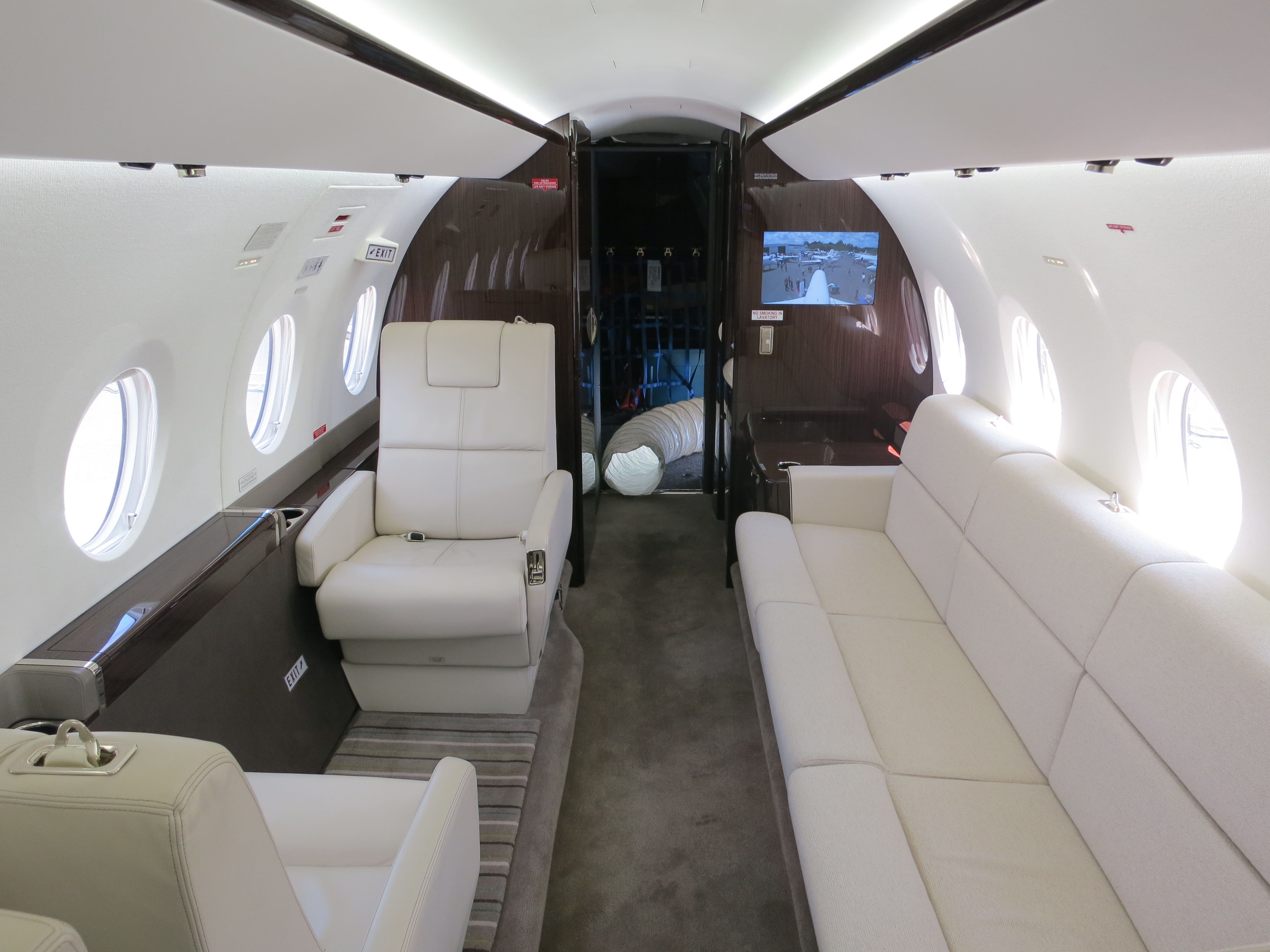 Gulfstream G280 cabin interior with divan